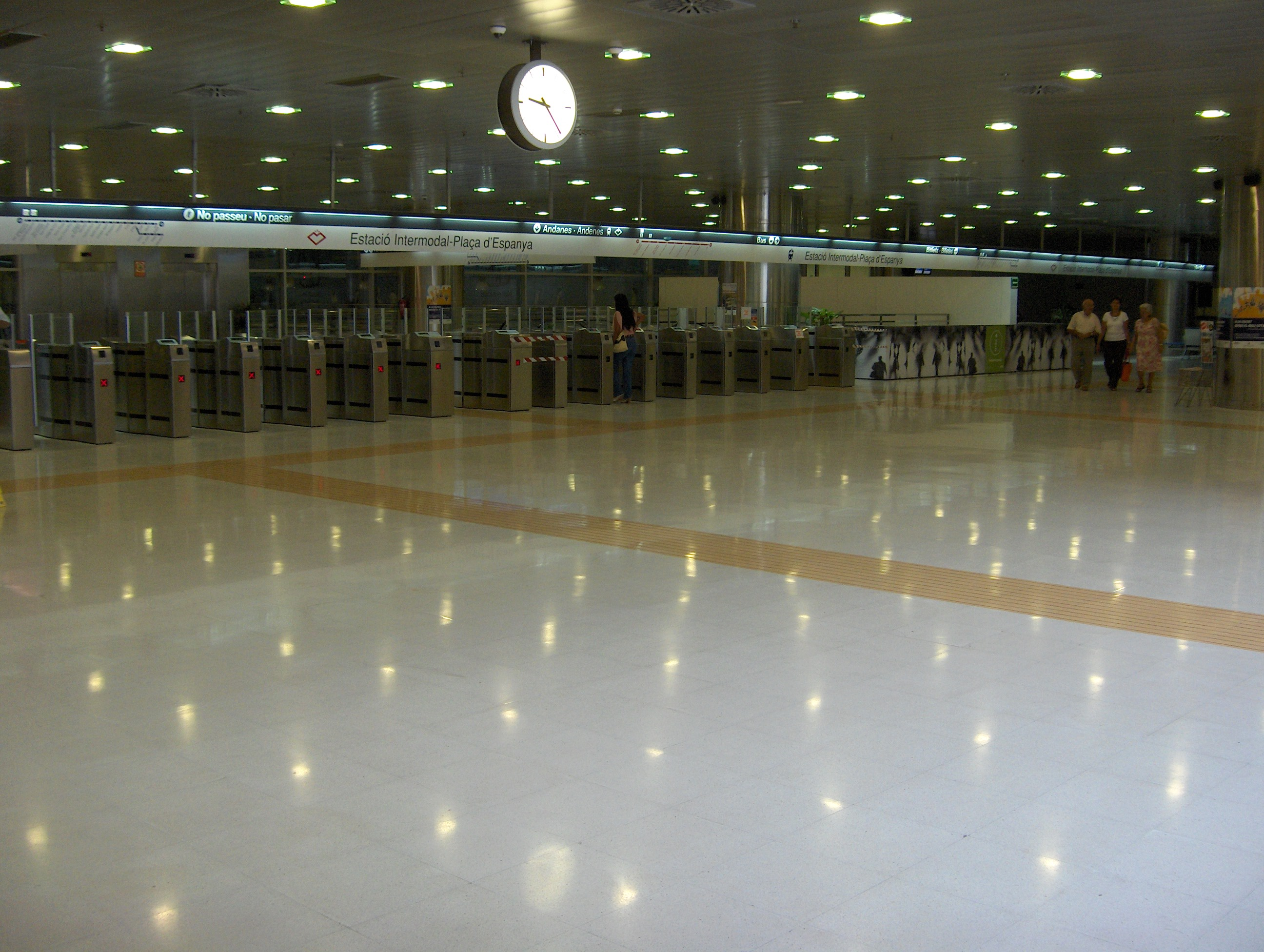 The middle level at the Estació Intermodal in Palma the Mallorca